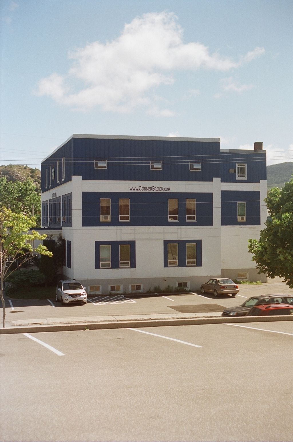 West coast of Newfoundland including Port au Port penensula, to Port aux Chois and Long Range Mountains. Stephenville and Corner Brook..